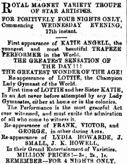 Advertisement for the first appearance of Katie Angell as a trapeze artist. She was 11 years old at the time. "Katie Angell". was the stage name of Kate Rickards (1862–1922). She was the second wife of the showman Harry Rickards (1843–1911) .